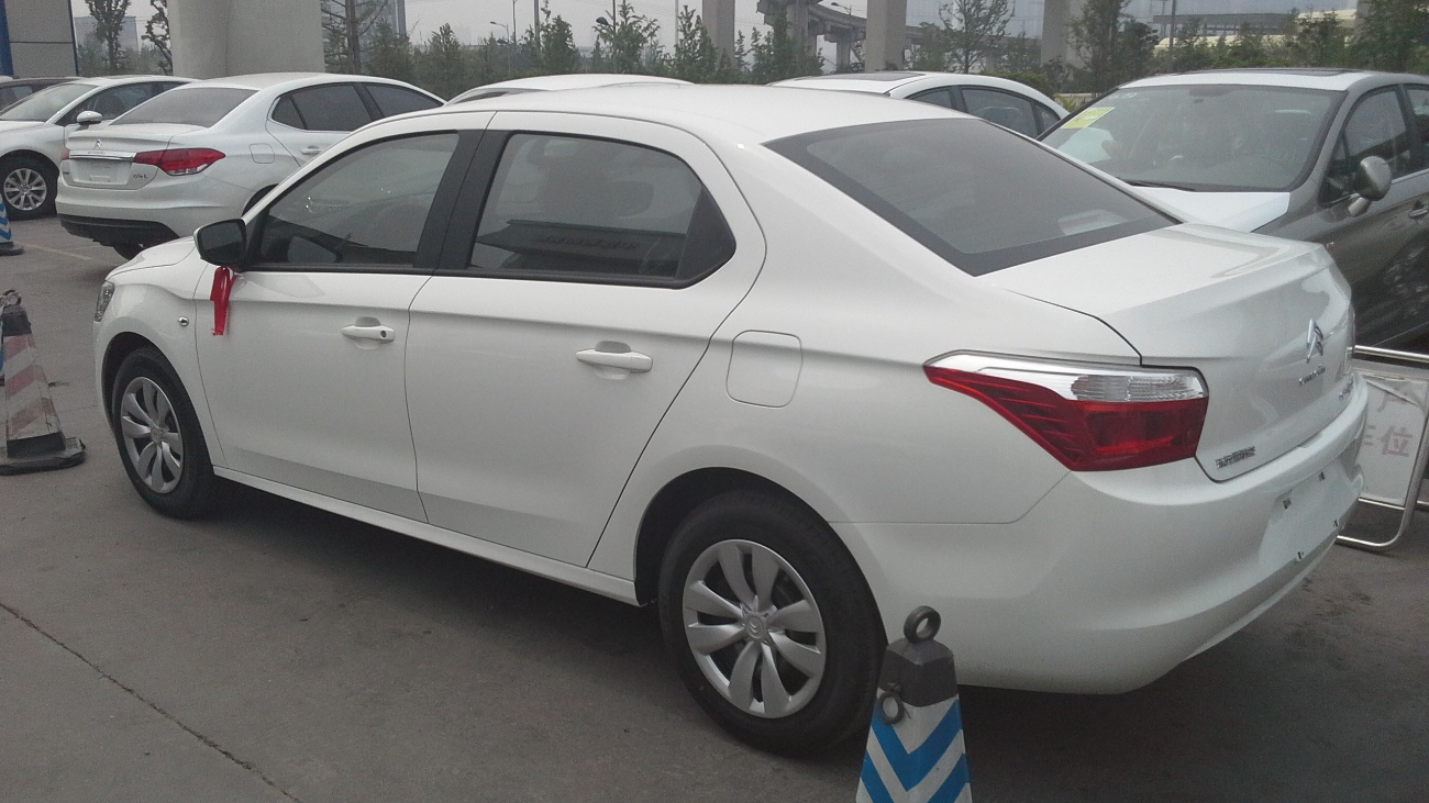 Citroën C-Elysée II photographed in Chongqing, China.